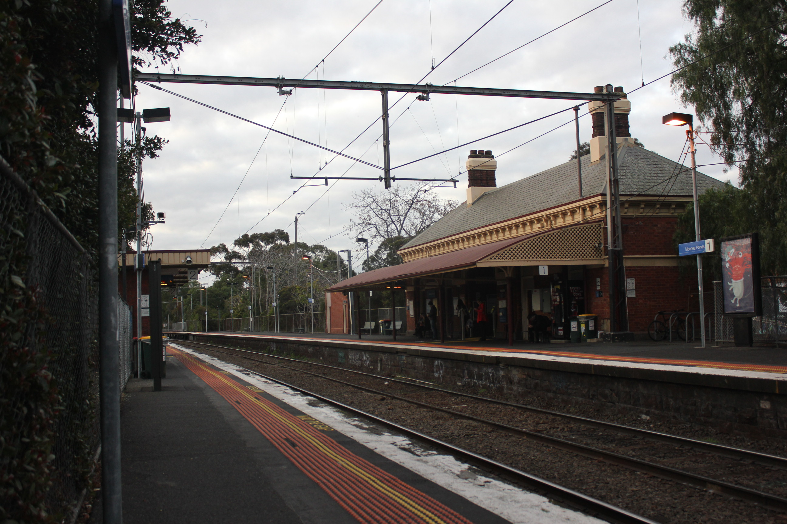 Moonee Ponds railway station, looking northbound.